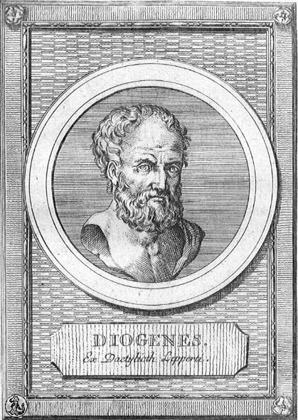 Portrait of Hellenic philosopher Diogenes Babylonicus (Diogenes of Babylon / Diogenes the Stoic) Διογένης